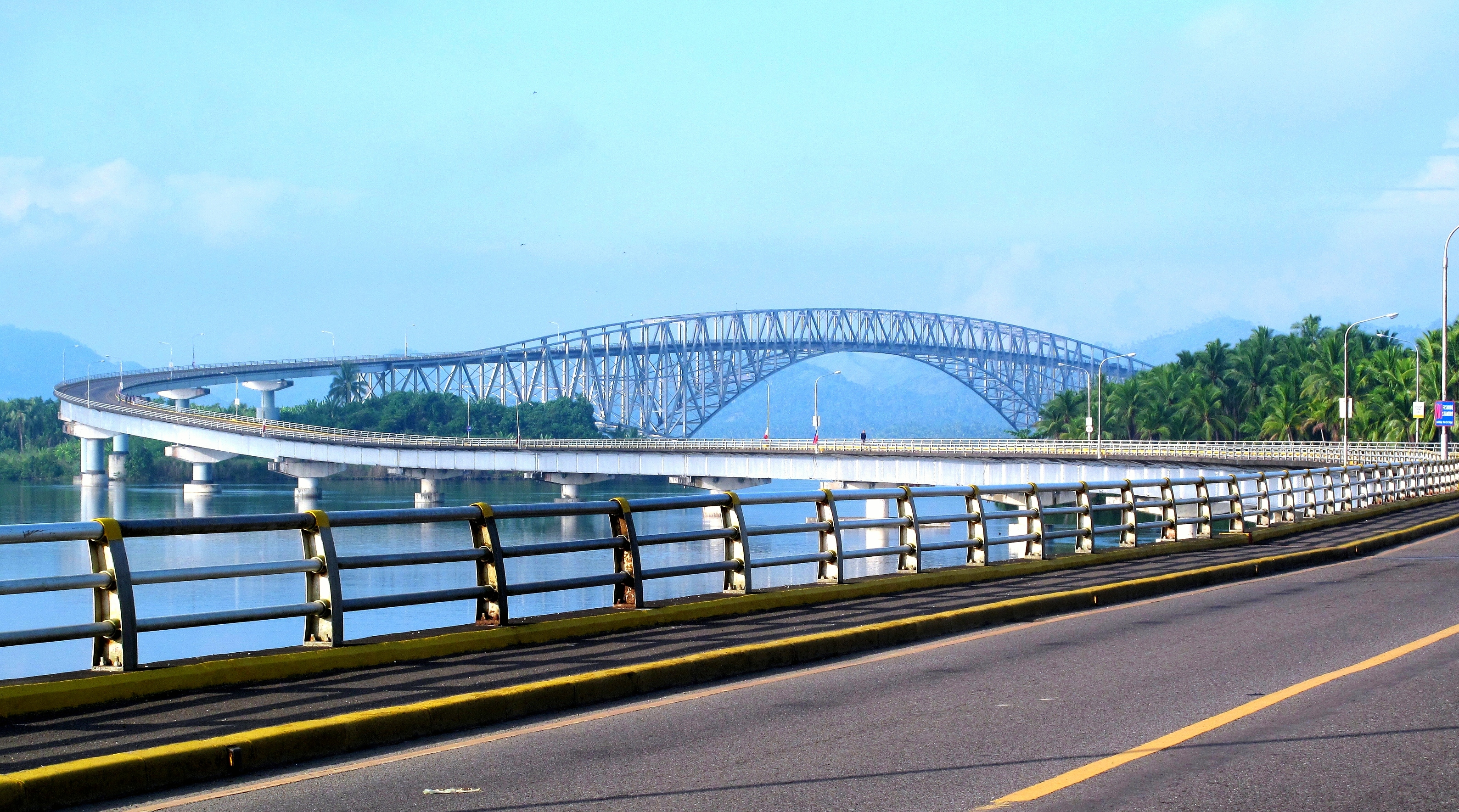 San Juanico Bridge, between Leyte and Samar, Philippines. View from Samar side.